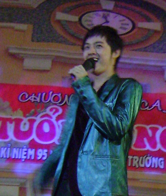 A shot was taken in Tuổi hồng 15, which was held to raise fund for the poor by Minh Khai senior high school, Vietnam. It's about Phạm Trần Thanh Duy, the runner-up of Vietnam Idol, season 2.